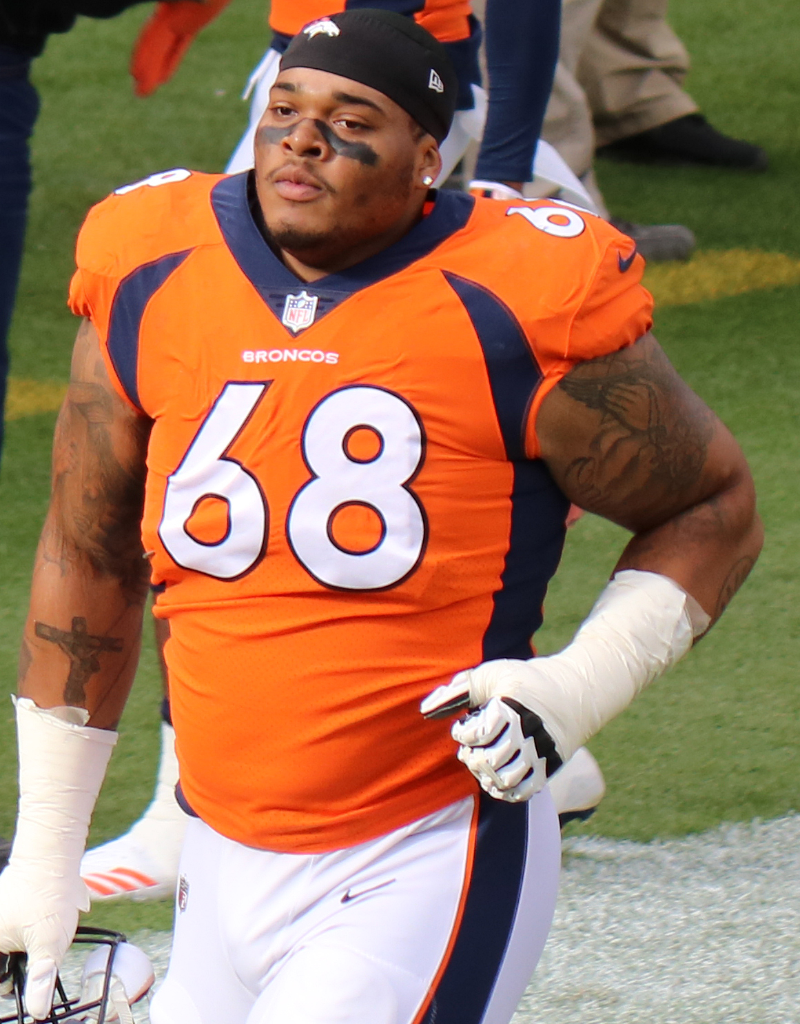 Elijah Wilkinson, a National Football League player.